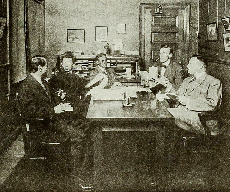 Photograph taken in early 1911 of a weekly meeting of the directors and head of production at Edison Studios in the Bronx, New York; clockwise from left: Director Ashley Miller, Director J. Searle Dawley, Producer-in-Chief Horace G. Plimpton at head of table, Assistant Director Charles J. Brabin with pipe, and Director C. Jay Williams. Another director, Oscar C. Apfel, had been hired just before this photograph was taken, but he had not yet begun working at the studio; image published as illustration for the article "Producers of Edison Photoplays: The Men Behind the Pictures", The Nickelodeon (New York, N.Y.), February 12, 1911, p. 157. [NOTE: In this early period of the silent era, the job titles "director" and "producer" were often used interchangeably. Film directors were also often identified as "stage directors".]